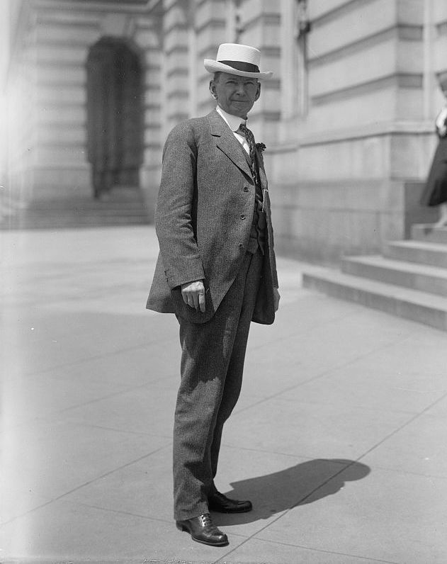 Congressman Richard W. Austin (1857–1919) of the U.S. state of Tennessee